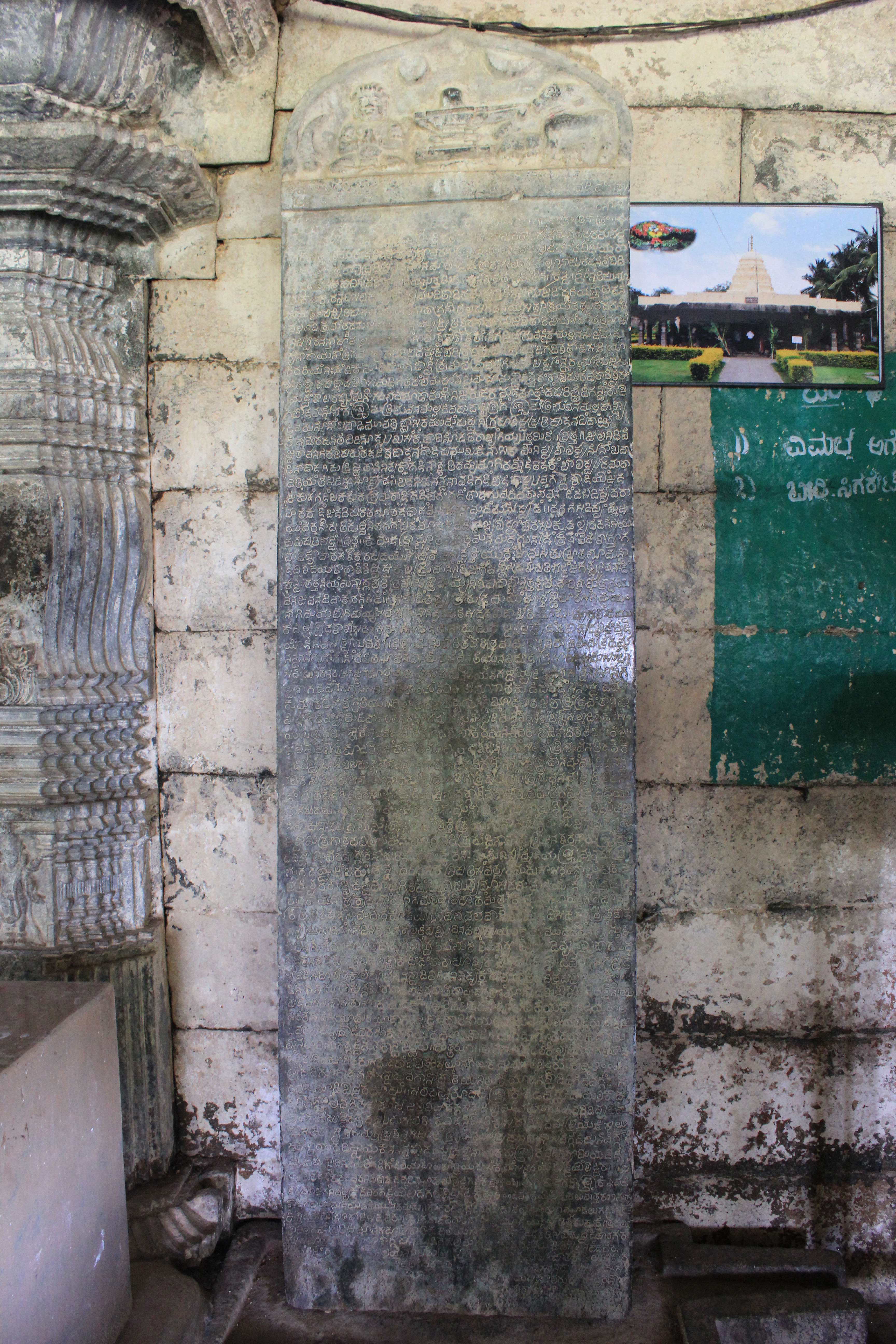 This photograph was taken by me at the Kalleshvara temple (also spelt Kalleshwara or Kallesvara) in Ambali, Bellary district, Karnataka state, India. The temple construction was started in 1083 AD during the rule of Western (Kalyani) Chalukya King Vikramaditya VI. Sources:1.Lists of the antiquarian remains in the Presidency of Madras, Volume 2, Chapter=Topographical list of antiquities, Bellary district, Kudligi Taluk, subsection-Ambala, author=Robert Sewell, p.110, 1882, Madras, Government Press; 2.South Indian Inscriptions, published by Director General of Archaeological Survey of India, volume XVII, no. 31, section=Chalukya, Western, subsection=Tribhuvanamalla, editors=D.C. Sircar, K. G. Krishnan, web url=